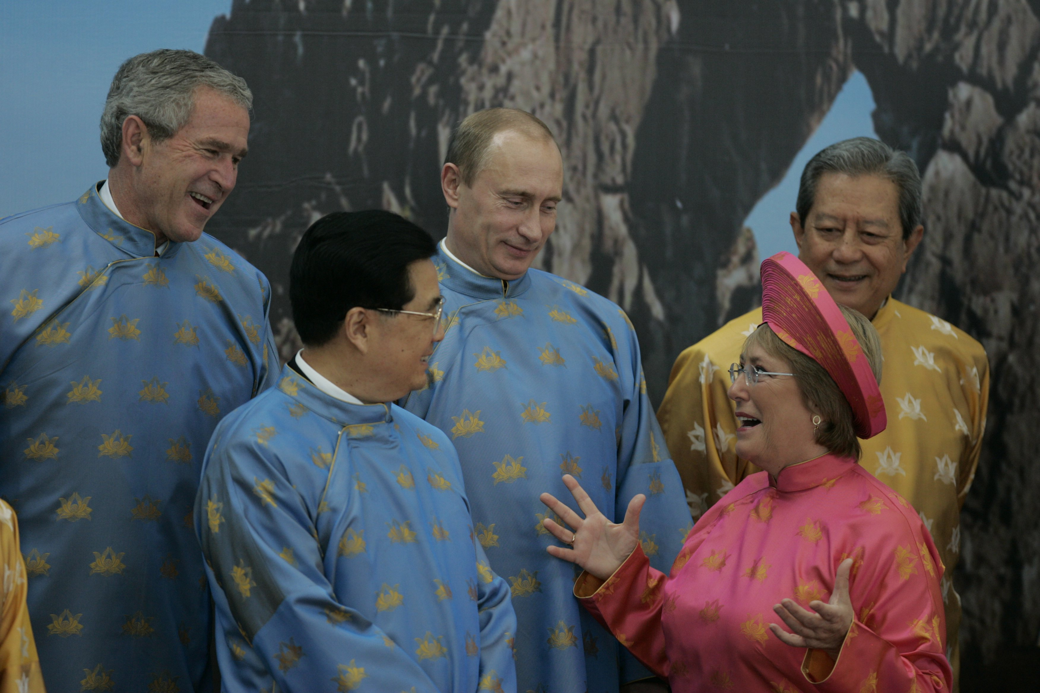 HANOI. U.S. President George W. Bush, Russian President Vladimir Putin and Thai Prime Minister Surayud Chulanont (left to right in the second row), President of China Hu Jintao and President of Chile Michelle Bachelet (left to right in the first row) before the release of the Hanoi APEC declaration at the National Congress Center.